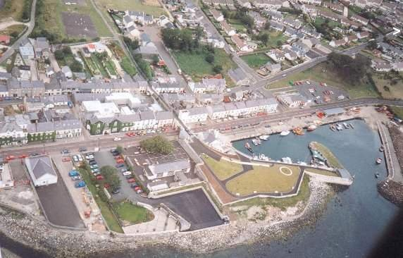 Carnlough Village and Harbour Taken from helicopter overlooking Carnlough Harbour, Harbour Road, Largy Road, Croft Road and High Street.